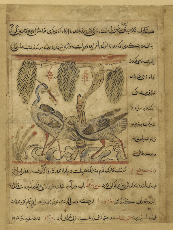 Folio from a Manafi'al-Hayawan (منافع الحيوان: Usefulness of Animals); recto: two herons under pendant branches; verso: four birds in flight 1315 Opaque watercolor, ink and gold on paper H: 12.8 W: 12.0 cm